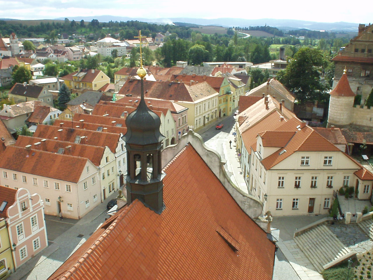 Horšovský Týn - town square